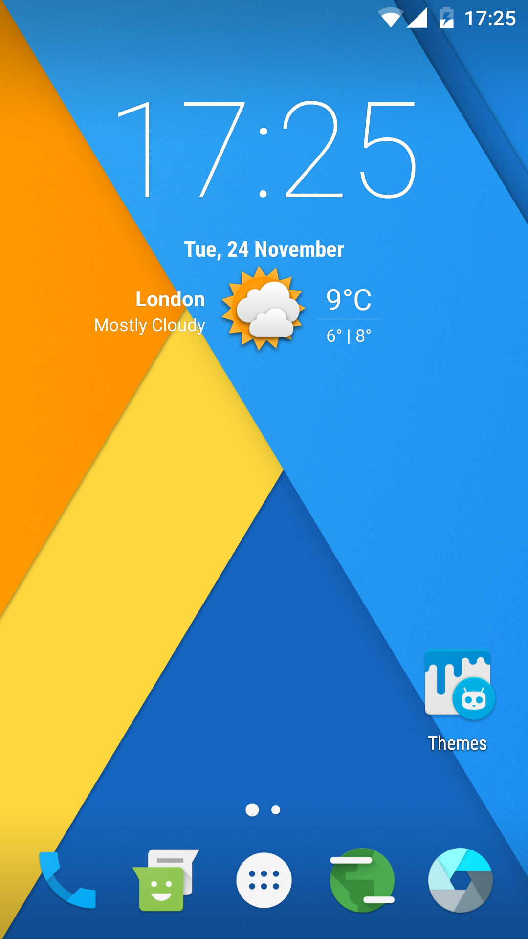 Screenshot of the first CyanogenMod 13 nightly build from 24th November on a OnePlus One